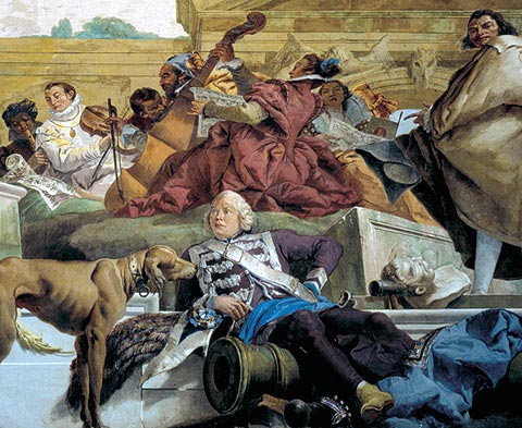 Portrait of Balthasar Neumann